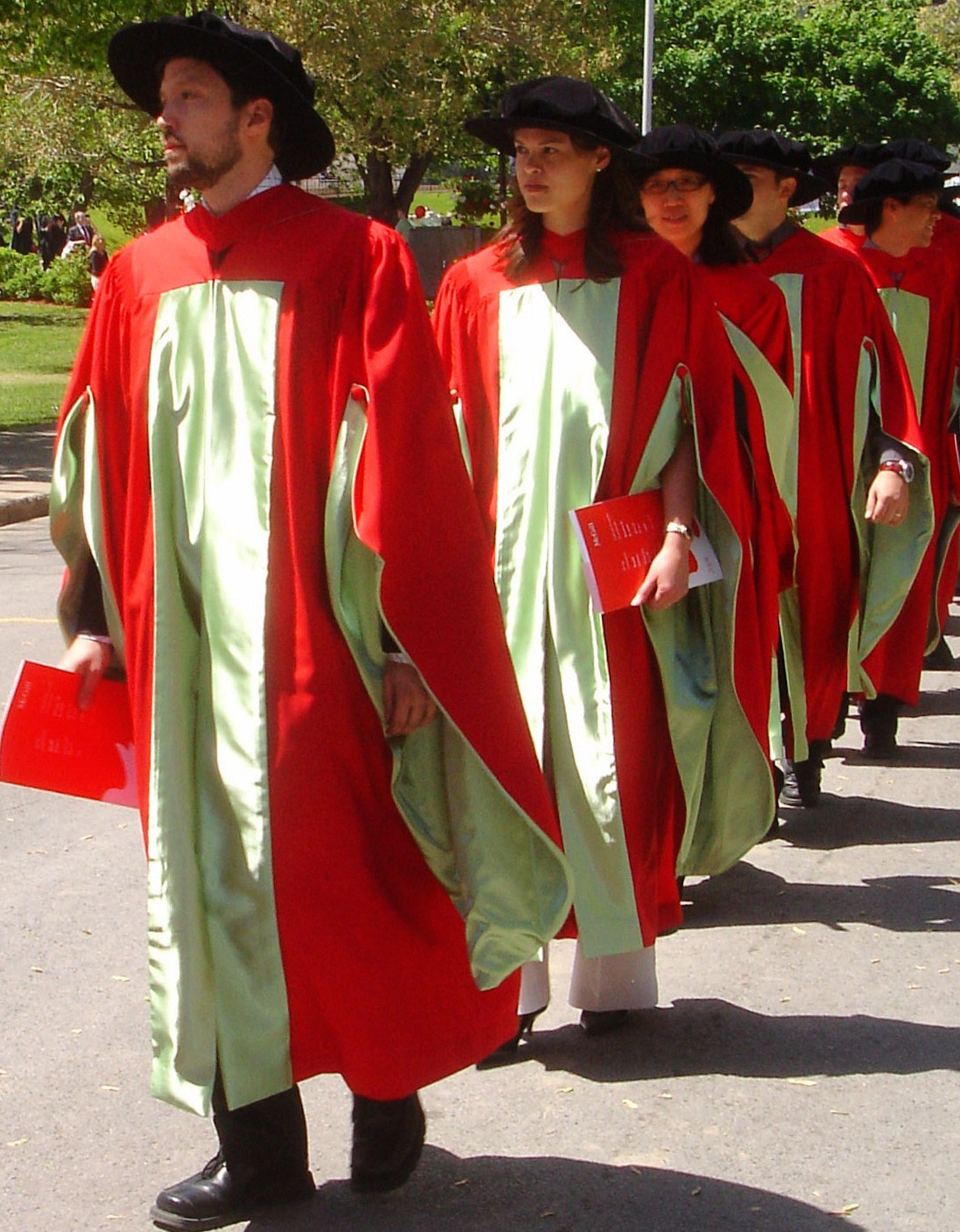 McGill doctoral robes